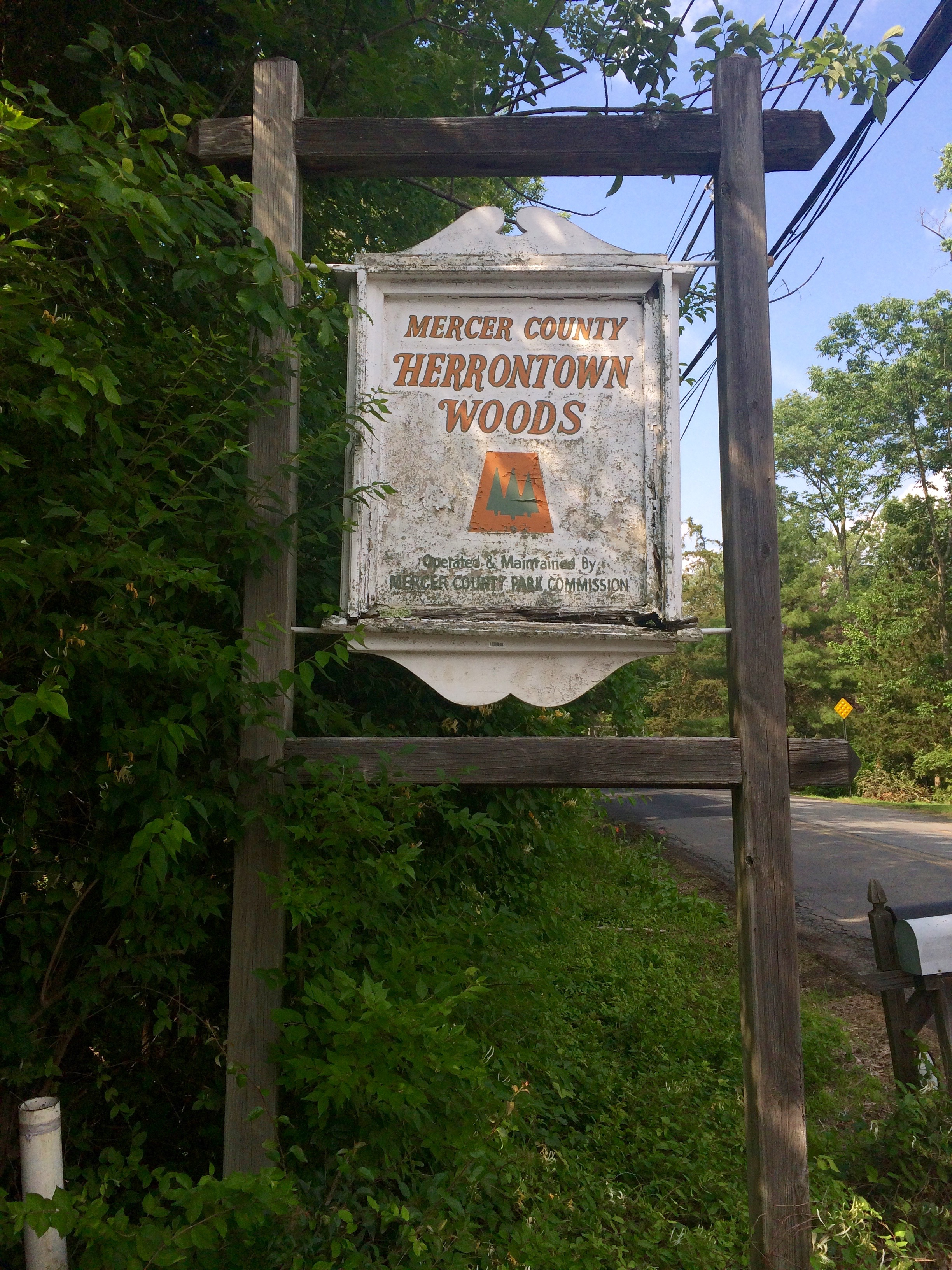 The sign on Snowden Lane in Princeton, New Jersey for the Herrontown Woods Arboretum.